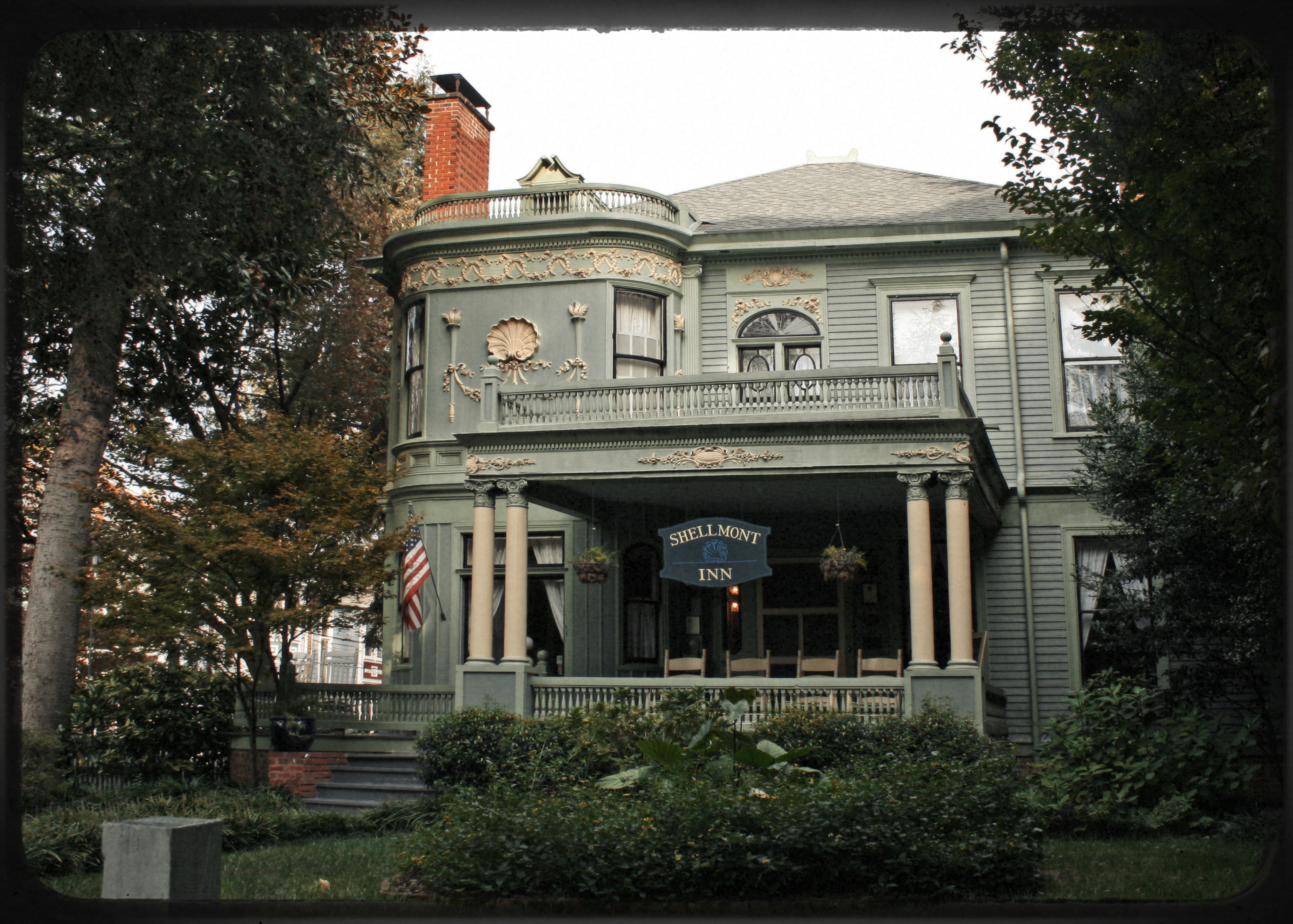 National Register of Historic Places. The William P. Nicolson House at 821 Piedmont Ave. in Atlanta, Georgia. Photo taken September 25, 2012.